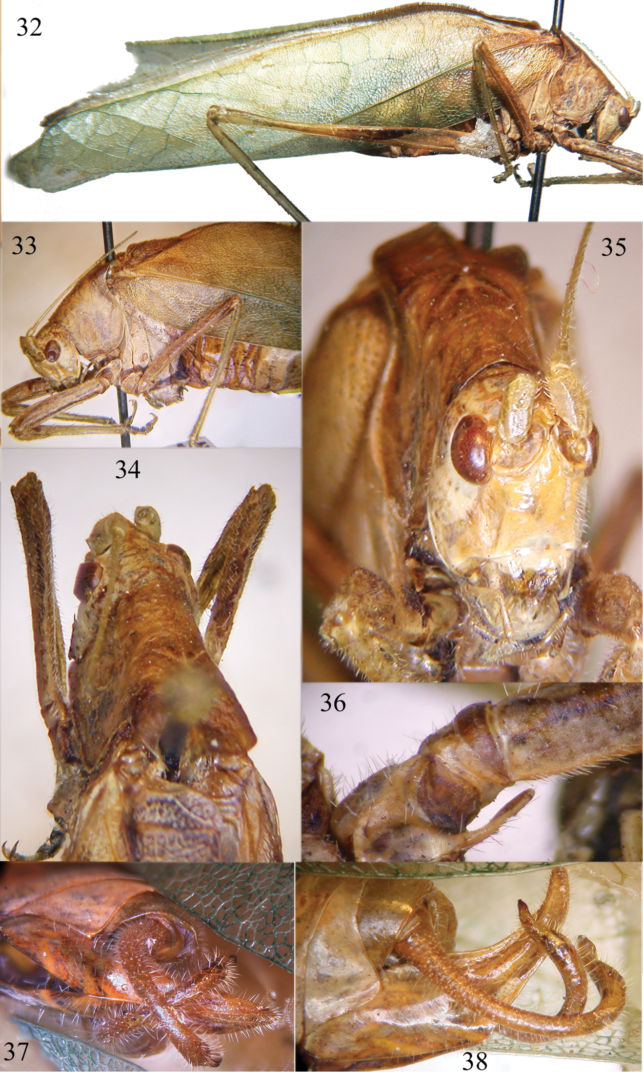 Angustithorax spiniger Lateral view of holotype (32), lateral view (33) and dorsal view of pronotum (34), frontal view of head (35), spine on fore coxa (36), ventral (37) and lateral view (38) of cerci and sub-genital plate.